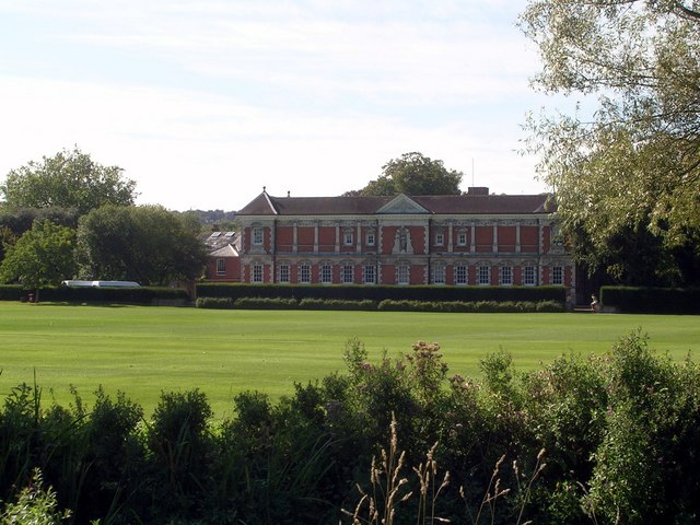 Winchester College from the Clarendon Way. Looking across Ridding Meads. Part of a series of pictures that illustrates a walk in my Inheritance Walks. Previous: 1467866 Next: 1467905